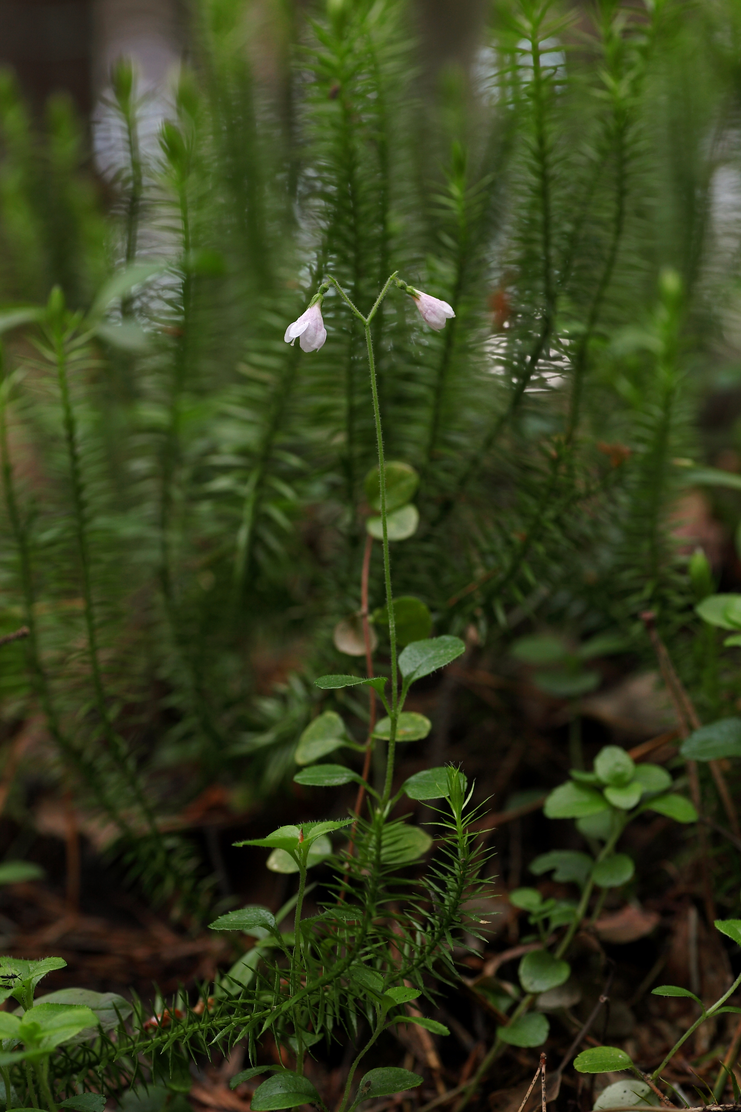 A twinflower in Albu Parish, Estonia